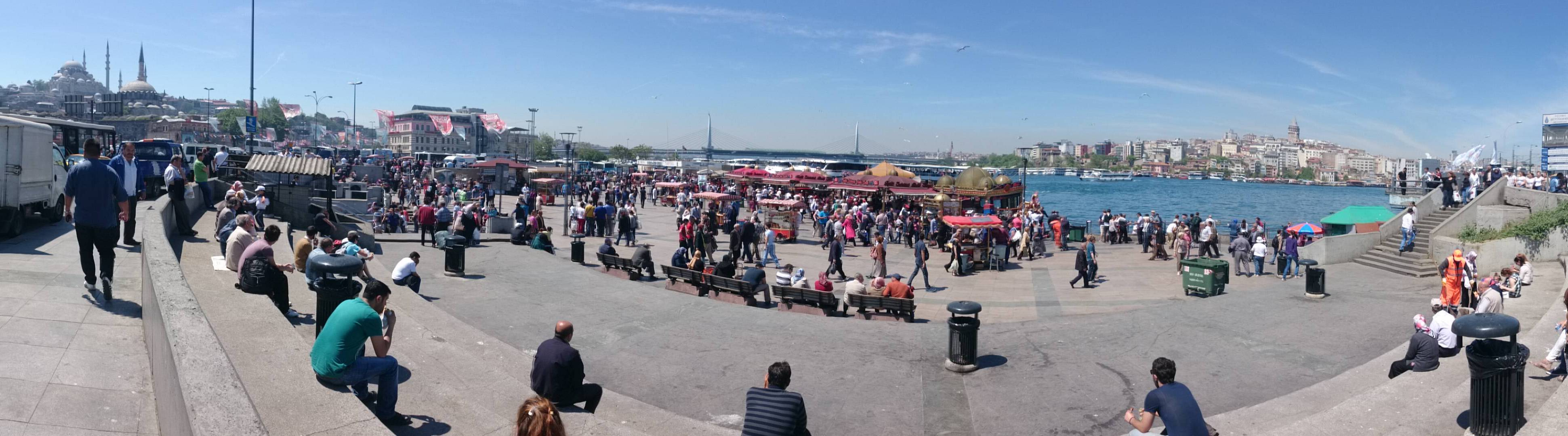 Panoromic view from Eminonu, Istanbul